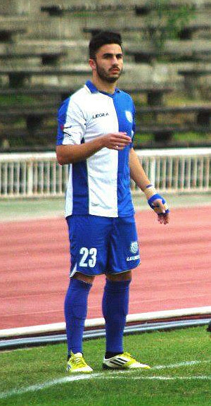 Pedro Mendes from Chernomoretz